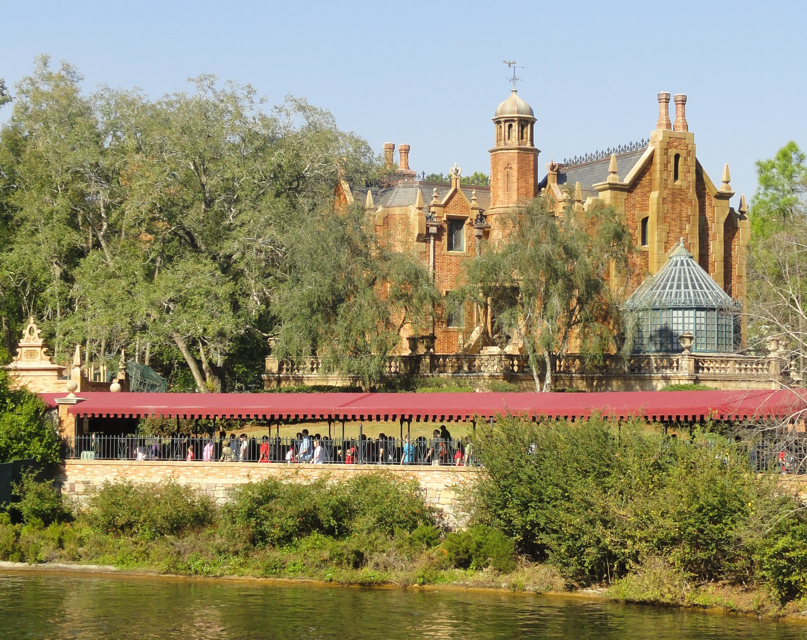 The Liberty Square Haunted Mansion, right before the addition of the new interactive cemetery queuing area.